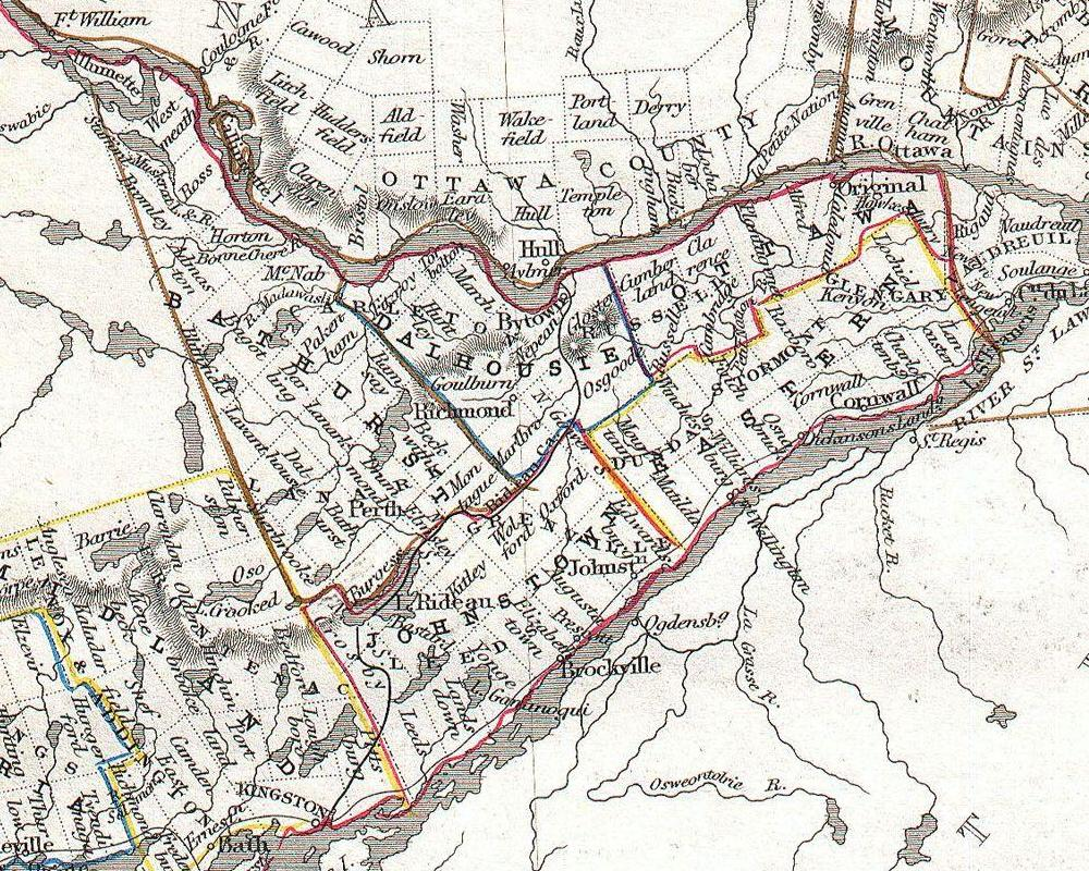 This is John Tallis’ extremely attractive c. 1850 map of West Canada or what is now Ontario. Includes Lake Erie, Lake Ontario, and part of Lake Huron with Georgian Bay. Features five stunning vignettes which include American Indians on horseback chasing buffalo across the great plains, Several American Indians sitting around a tree with a teepee in the background, two seals, an otter, and in the lower right quadrant, Niagara Falls. The whole is surrounded by a decorative vine motif border. The vignettes for this map were drawn by H. Warren and engraved by Robert Wallis. The map itself is the work of John Rapkin.